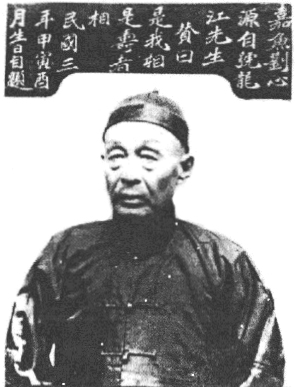 Liu Xinyuan